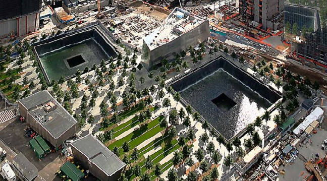 Photo of the 9/11 memorial taken from the World Financial Center, as it appeared in June 2012.